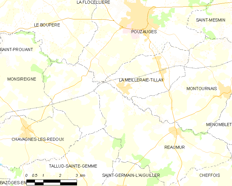 Map of French municipality La Meilleraie-Tillay